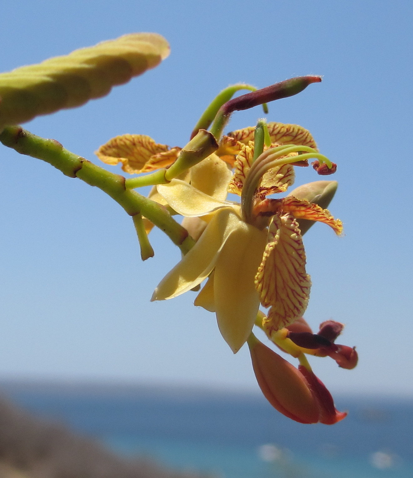 Flowering tamarind (Tamarindus indica, Caesalpinioideae) on Pemba bay.